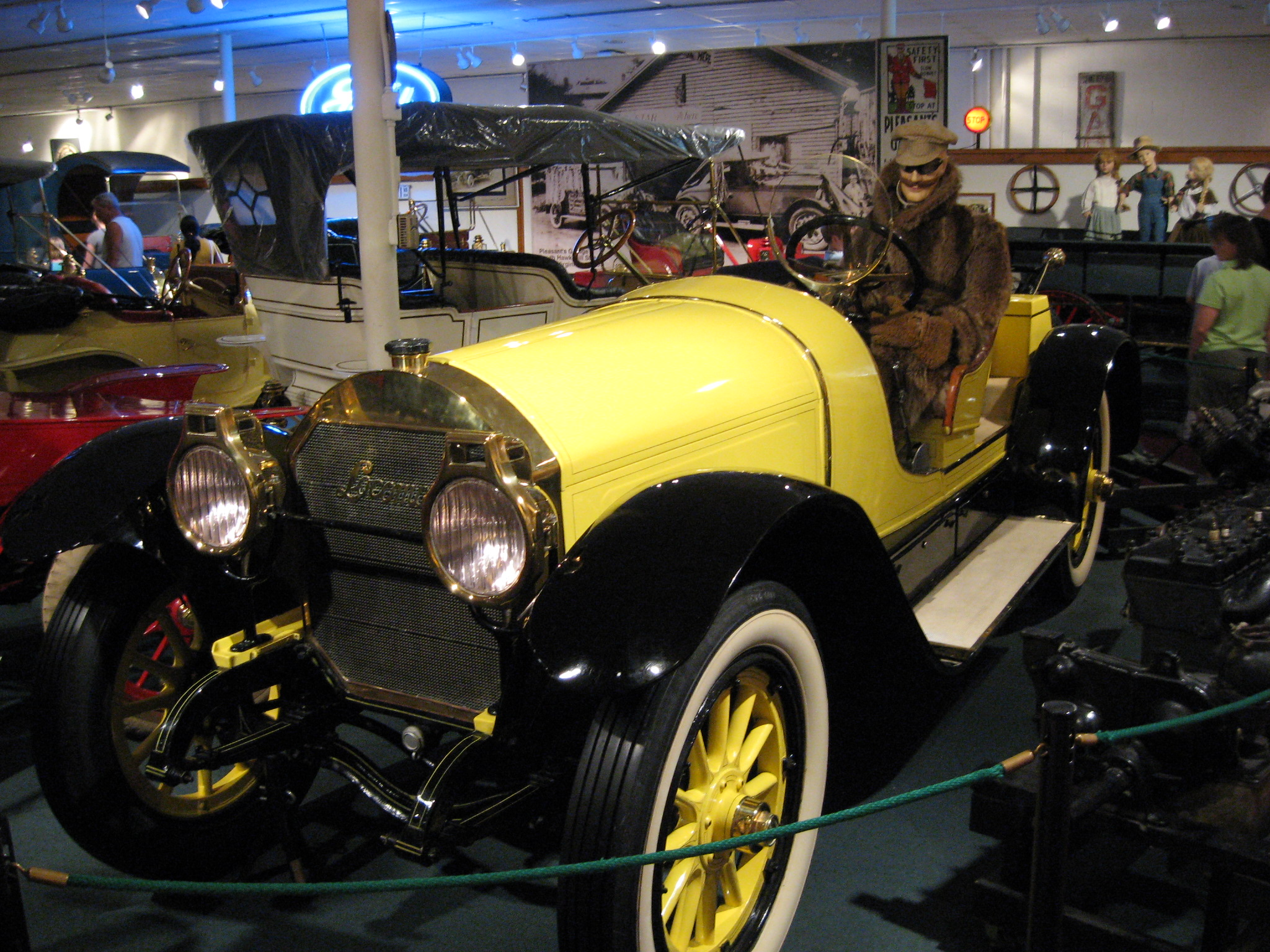 1914 Locomobile Model 48 "Gentleman's Speedster", on display at the Luray Caverns Car and Carraige Museum